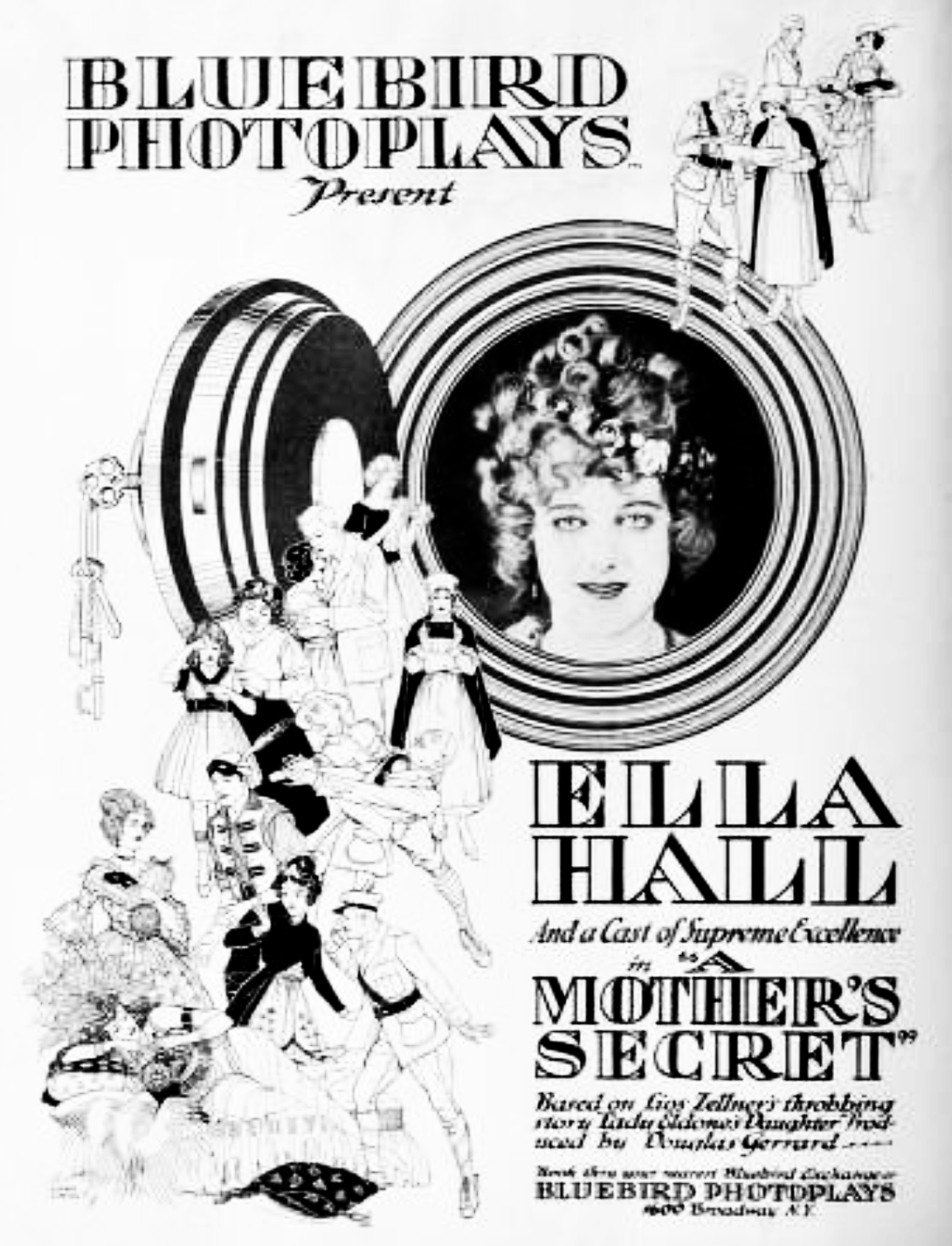 Magazine ad for the American film A Mother's Secret (1918) starring Ella Hall.